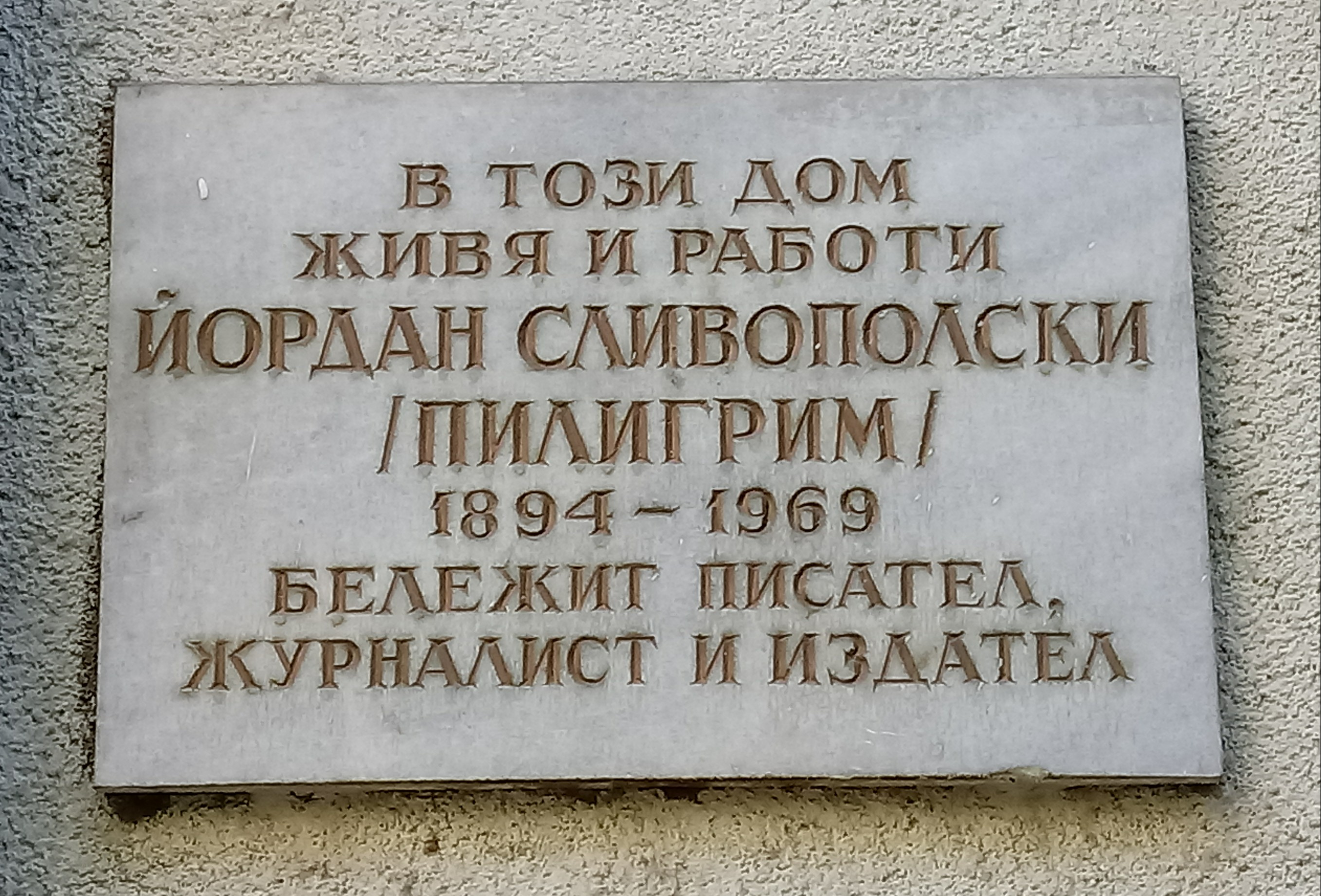 Memorial plaque of the Bulgarian writer Yordan Slivopolski (Piligrim), 18 "Vasil Aprilov" Str., Sofia